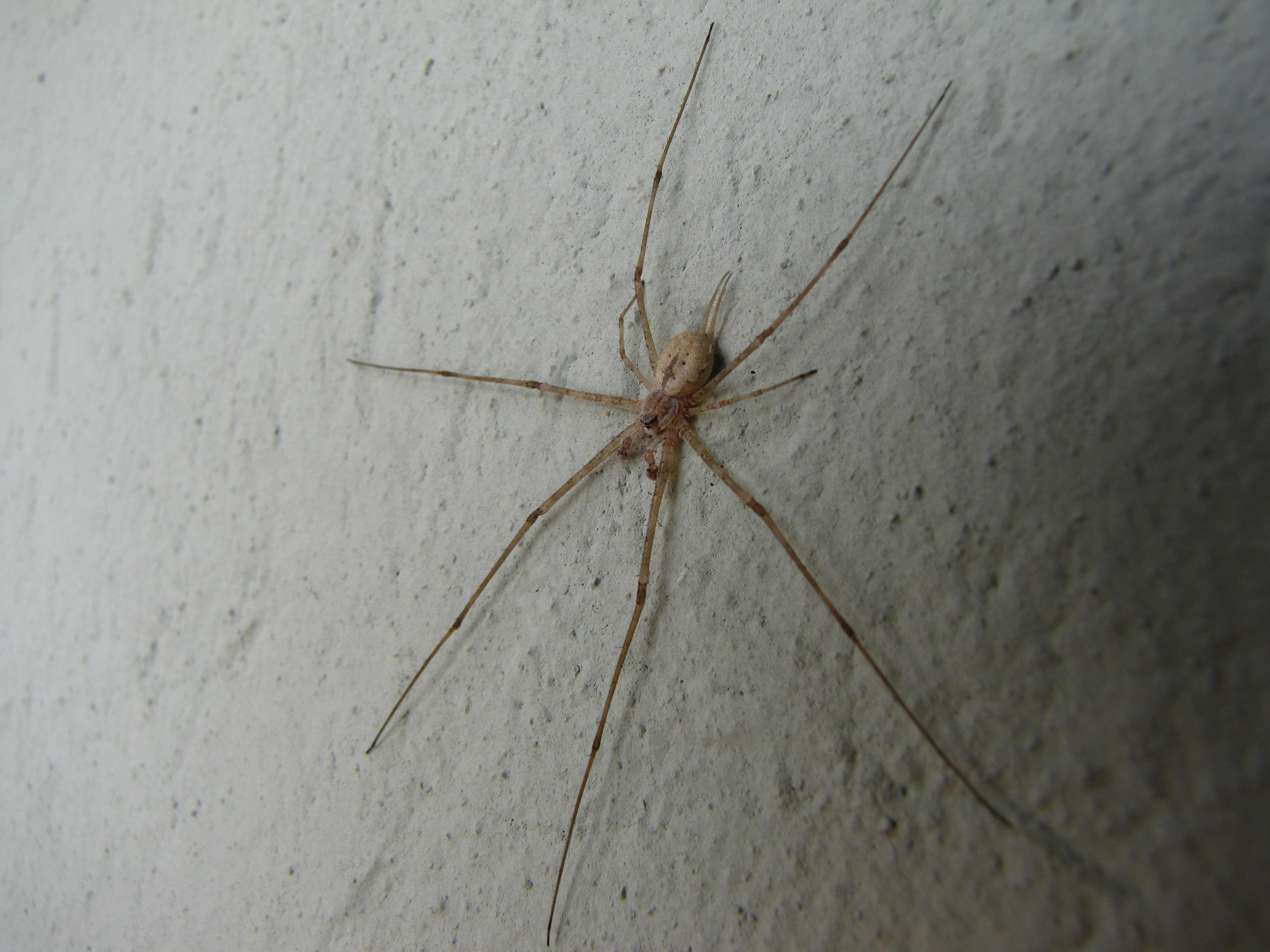 Hersilia savignyi in Ezhimala, Payyannur, Kerala, India, 13 May 12